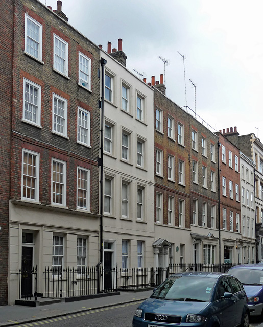 35-40 Great Pulteney Street